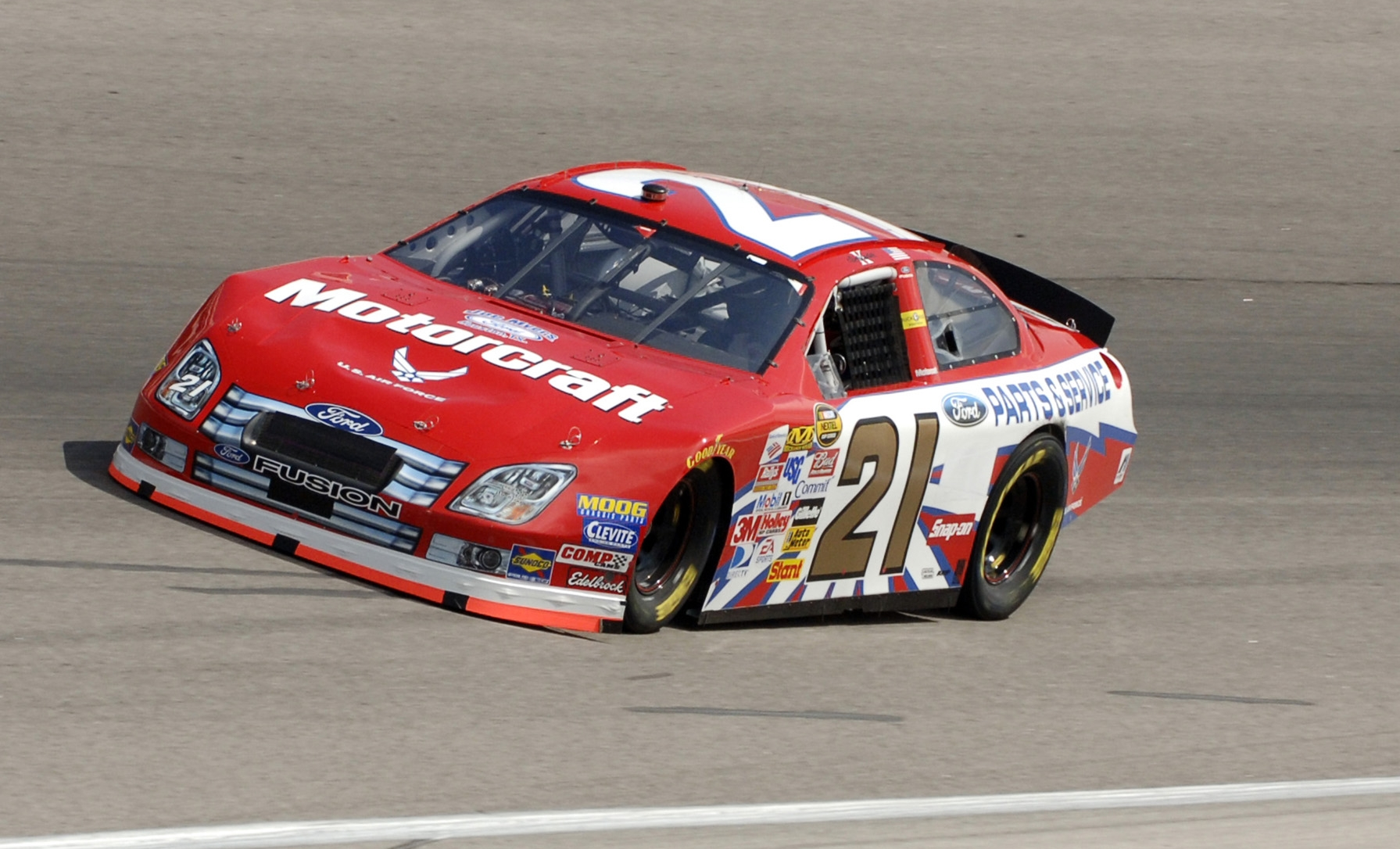 The #21 Woods Brothers team Motorcraft car in NASCAR during the 2006 season.